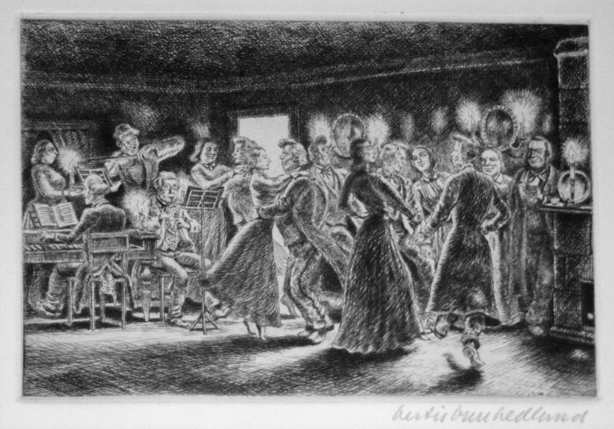 The etching Ball in "Bergslagen" by Bertil Bull Hedlund (1938)